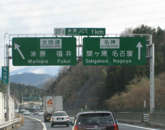 Sign of Maihara Junction